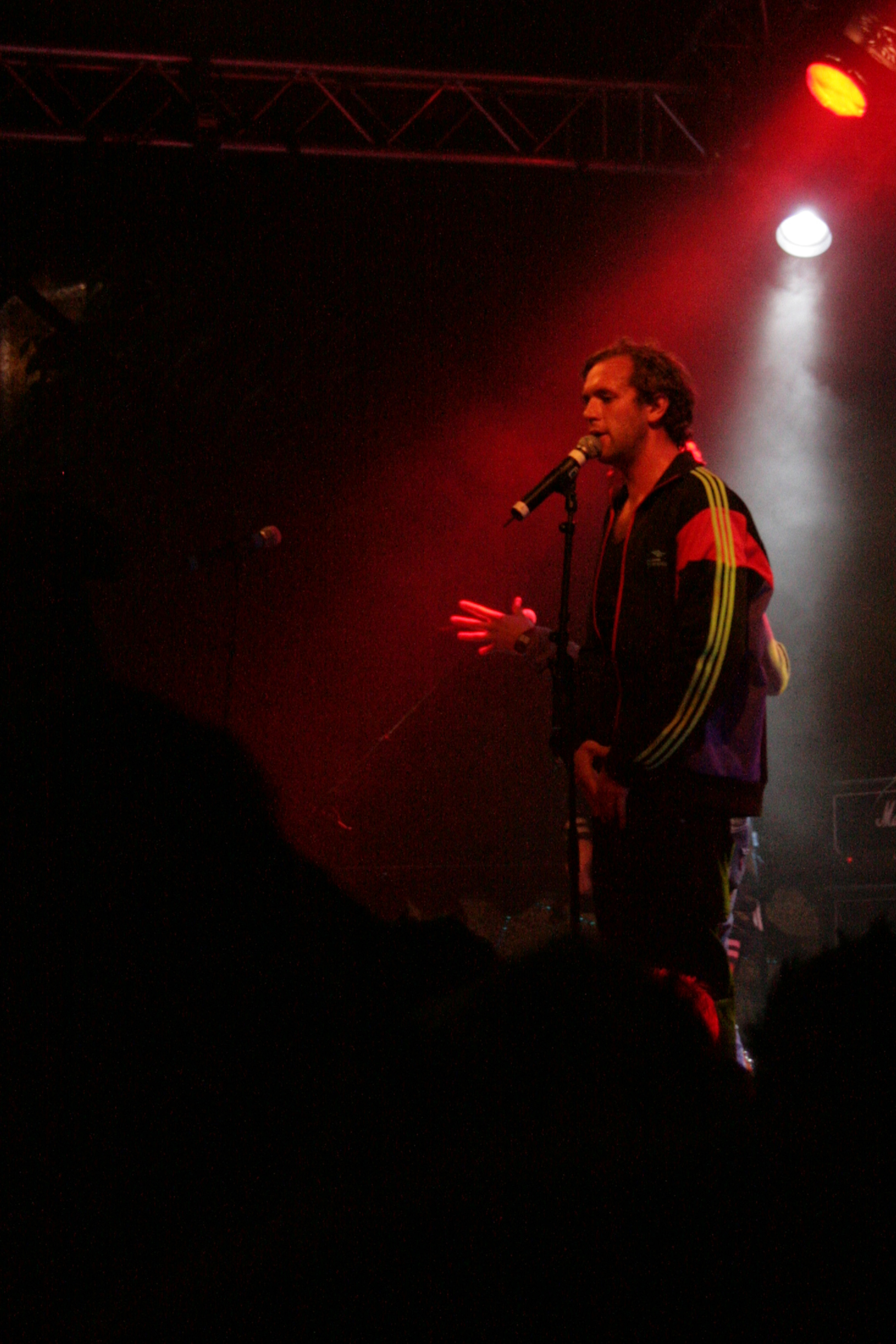 Swedish musician "Chords" playing on Malmöfestivalen in 2008.